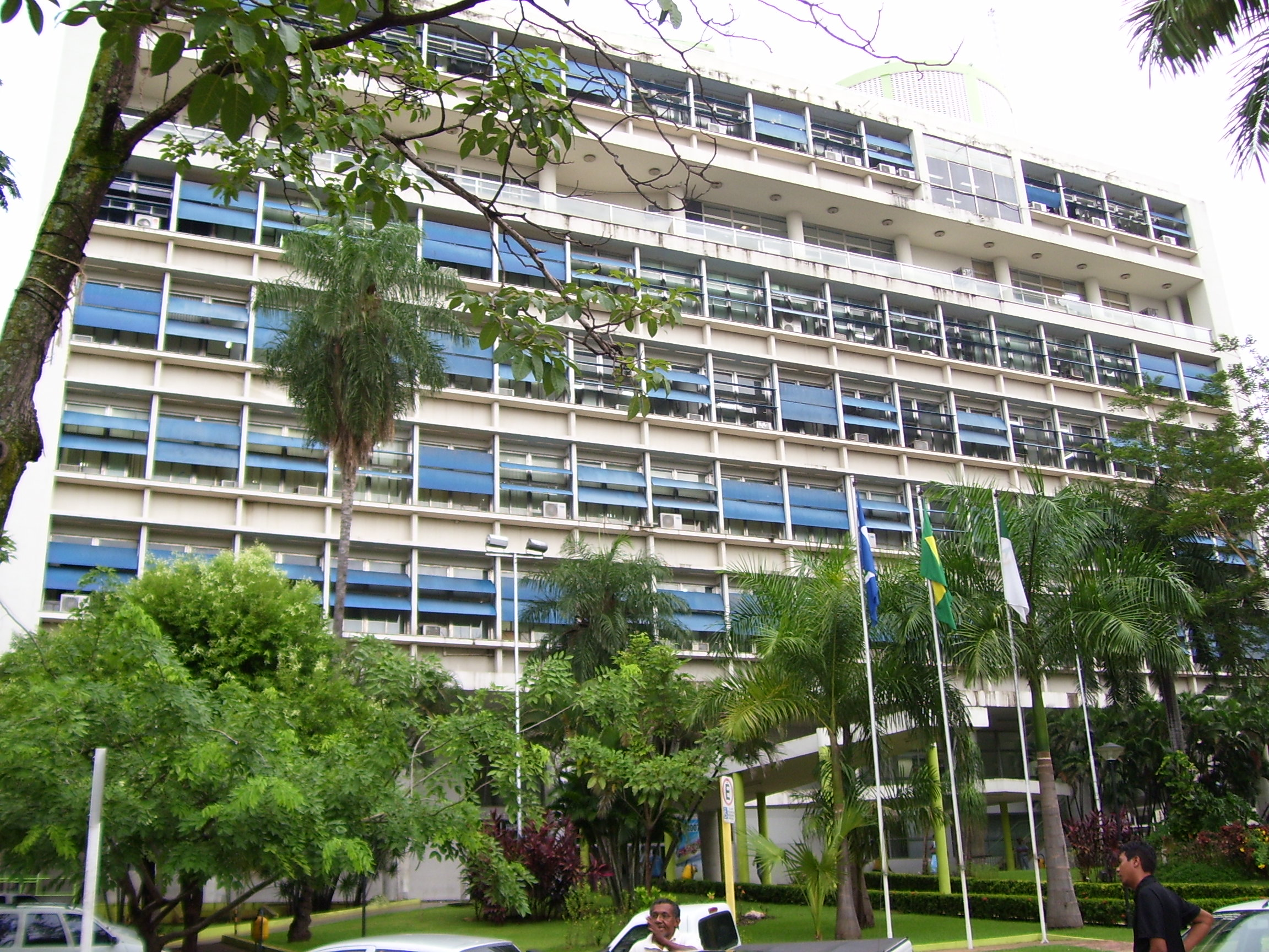 City Hall of Cuiabá, Mato Grosso, Brazil.